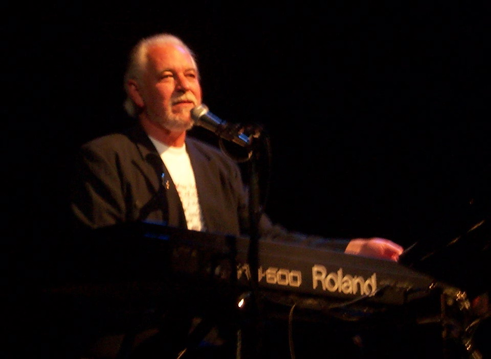 Gary Brooker with Procol Harum, Fairfield Halls, Croydon, 25 May 2002